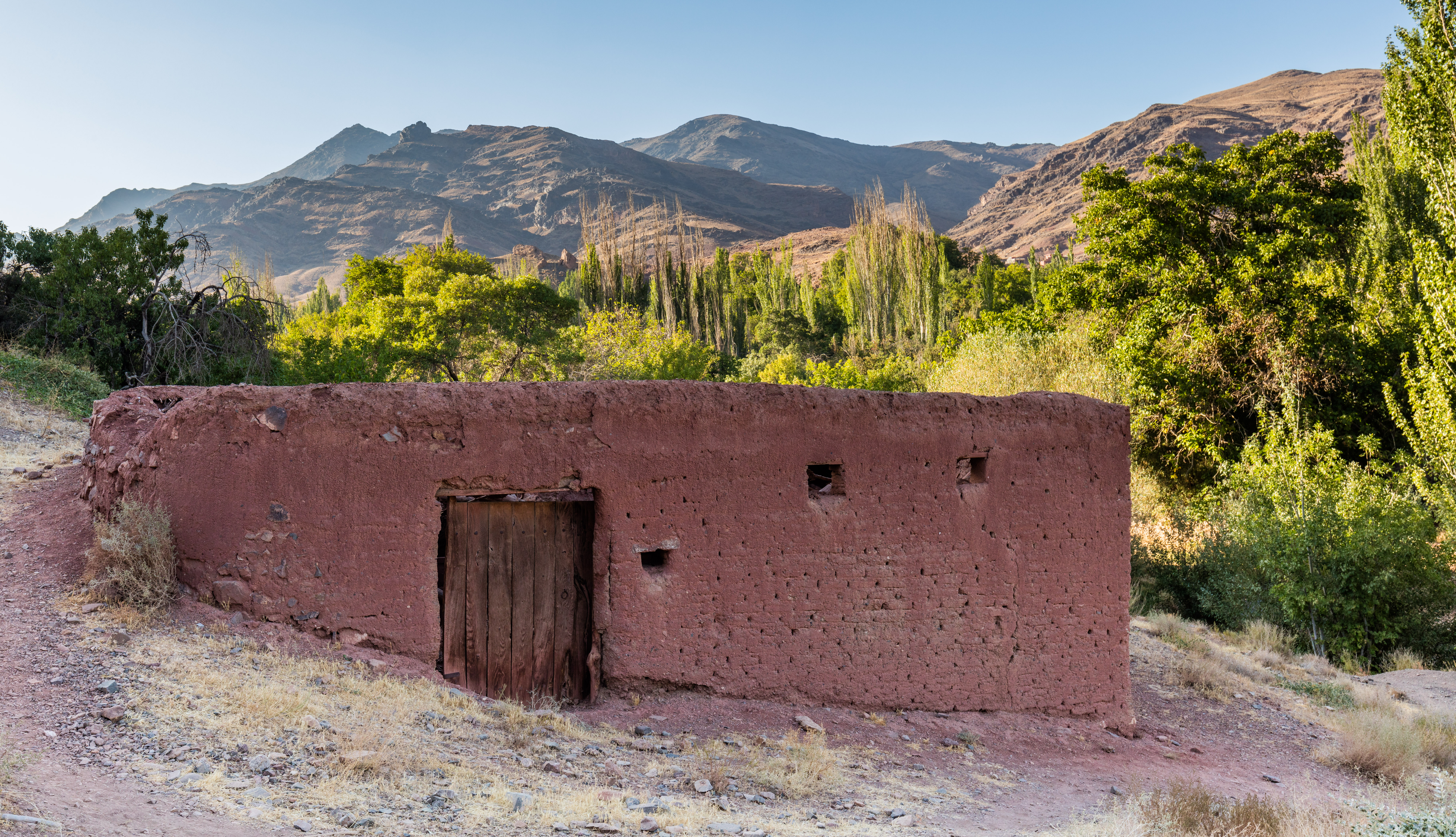 Abyaneh, Iran